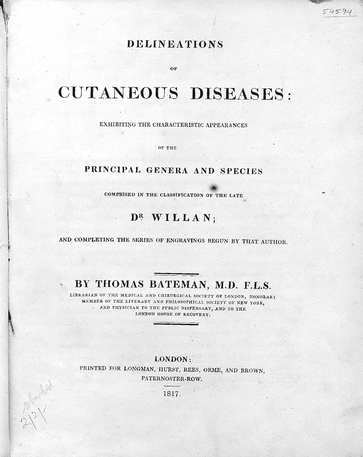 Title page Rare Books Keywords: Thomas Bateman